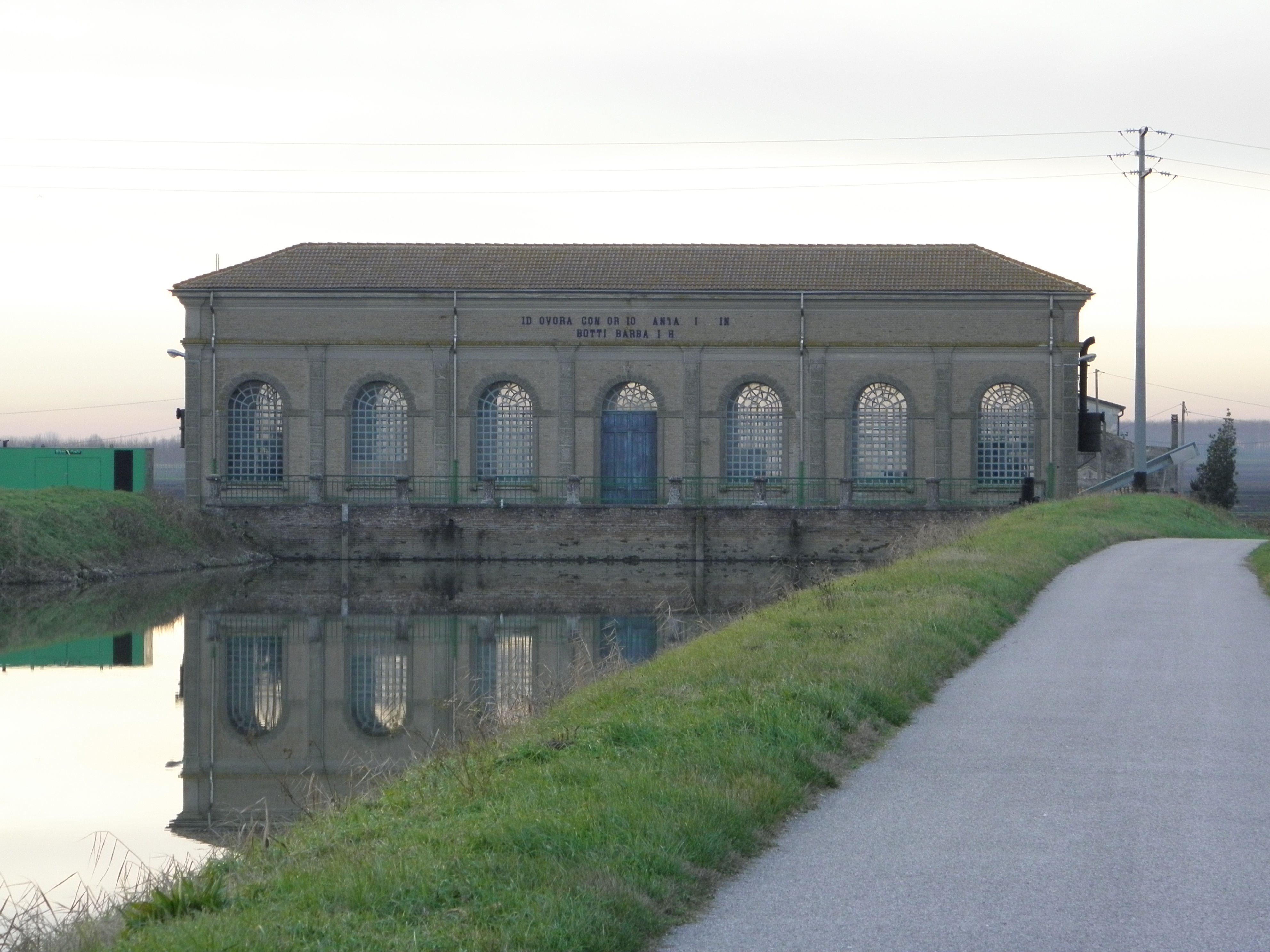 Botti Barbarighe, municipality of Pettorazza Grimani: Idrovora di Santa Giustina (Saint Justina's water pumping station).